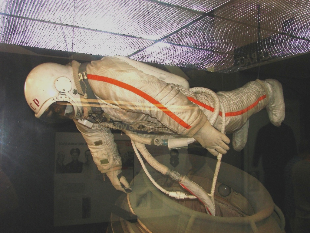 The space suit worn by Alexei Leonov on the first human space walk. On display at the Smithsonian National Air and Space Museum.